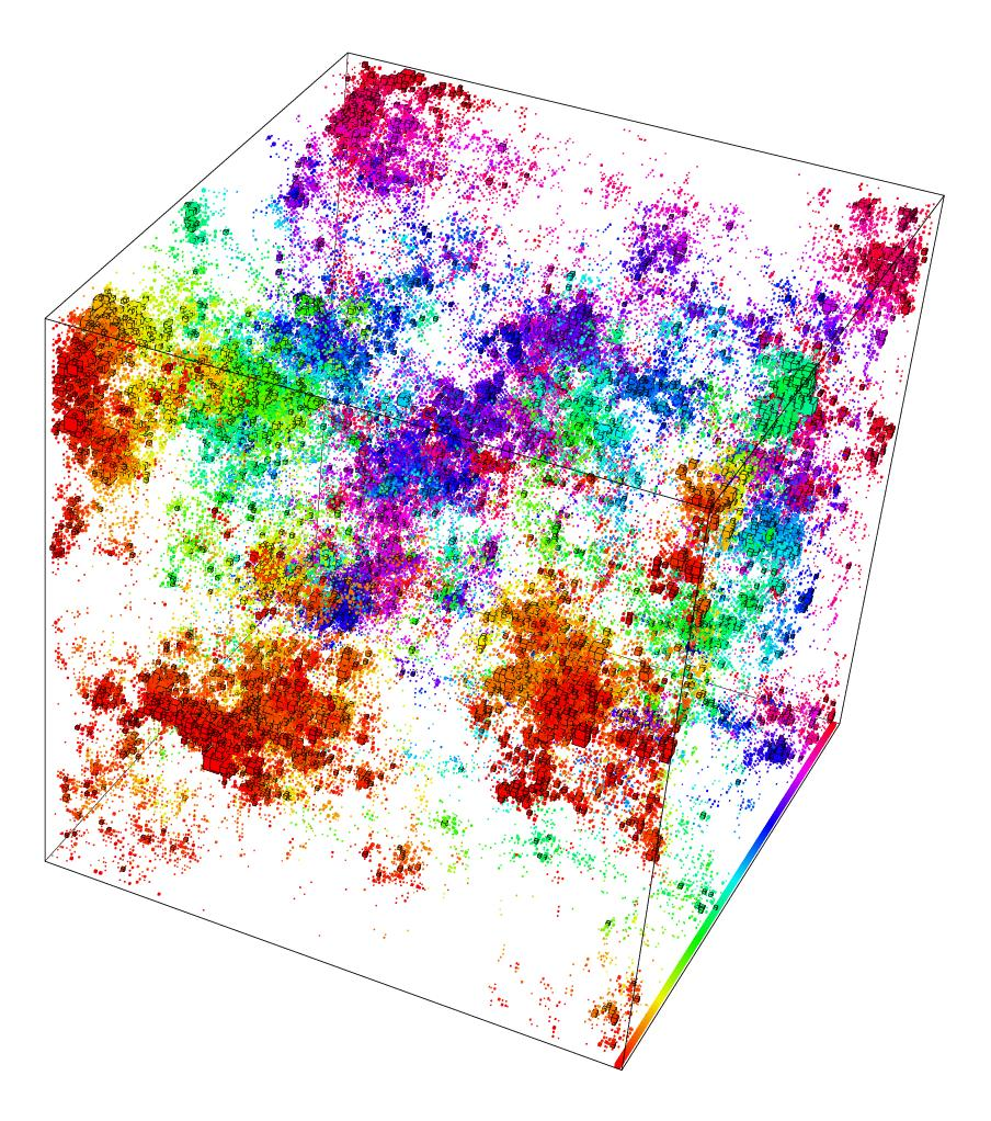 Example of an electronic eigenstate at the Anderson metal-insulator transition in a system with 1367631 atoms Each cube indicates by its size the probability to find the electron at the given position. The color scale denotes the position of the cubes along the axis into the plane.